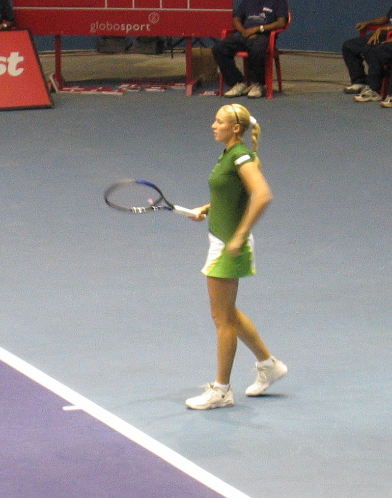 Olga Poutchkova at the 2006 Sunfeast Open in Kolkata